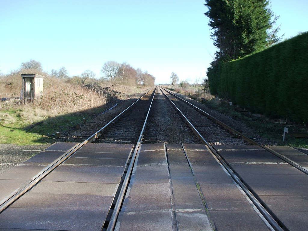 Ganton railway station (site), YorkshireOpened in 1845 by the York & North Midland Railway on its line from Scarborough to York, the station closed to passengers in 1930. View east towards Scarborough.